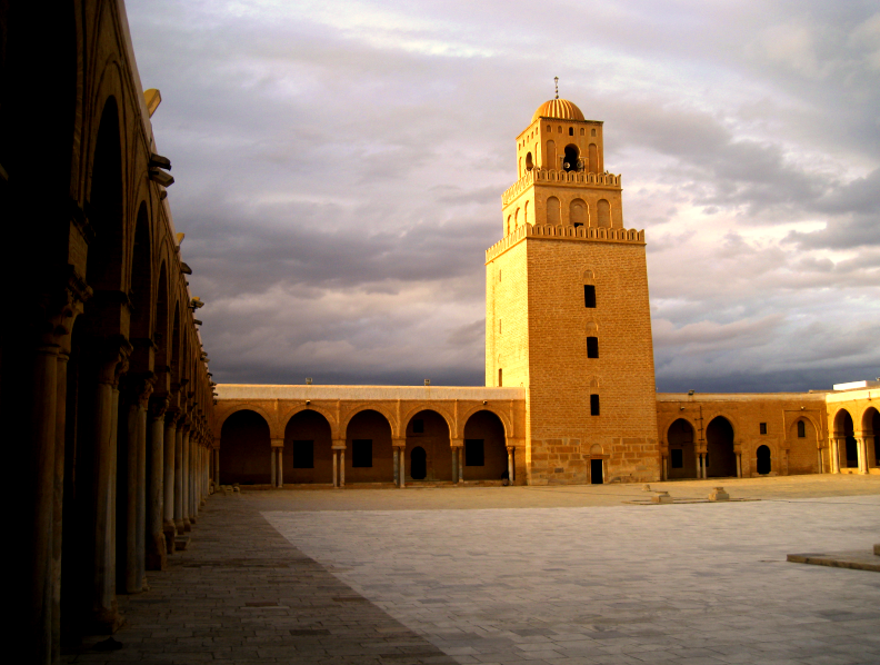 The Mosque of Uqba (Arabic: جامع عقبة), also known as the Great Mosque of Kairouan (جامع القيروان الأكبر), is one of the most important mosques in Tunisia, situated in the UNESCO World Heritage town of Kairouan. I personally took these pictures, while my visit to Tunisia in 2013